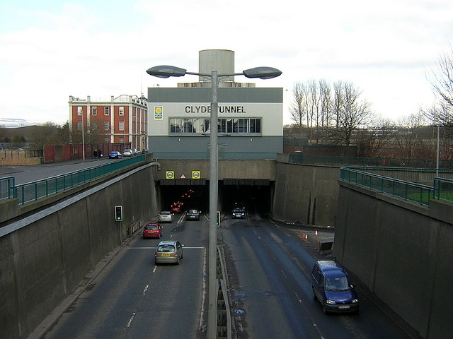 Clyde Tunnel Southern Entrance.